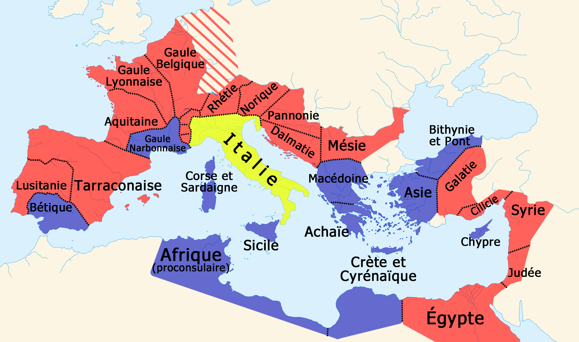 Provinces of the Roman Empire in 14 AD, in French. Imperial provinces Senatorial provinces Italy